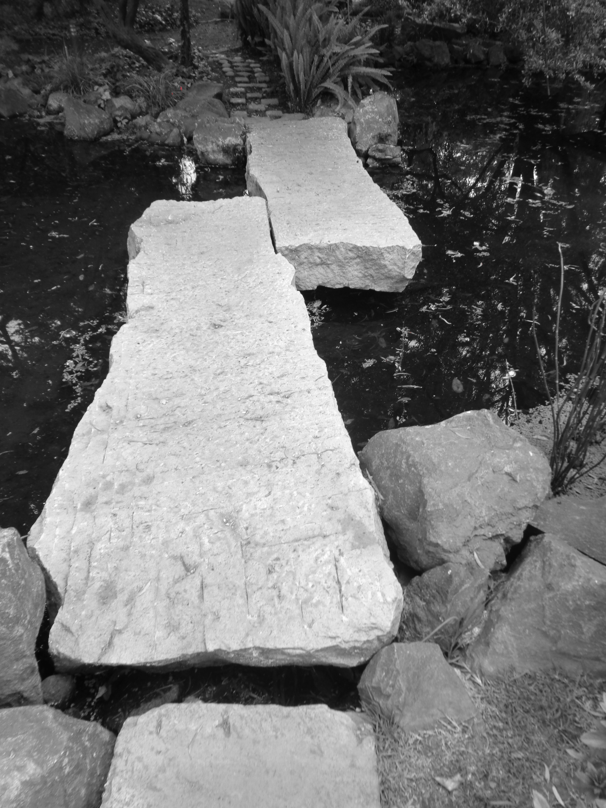 Jardín Botánico de Quito